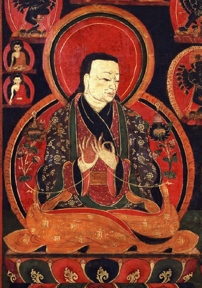 Marpa Chokyi Lodro, the famous Tibetan translator (1012-1097)